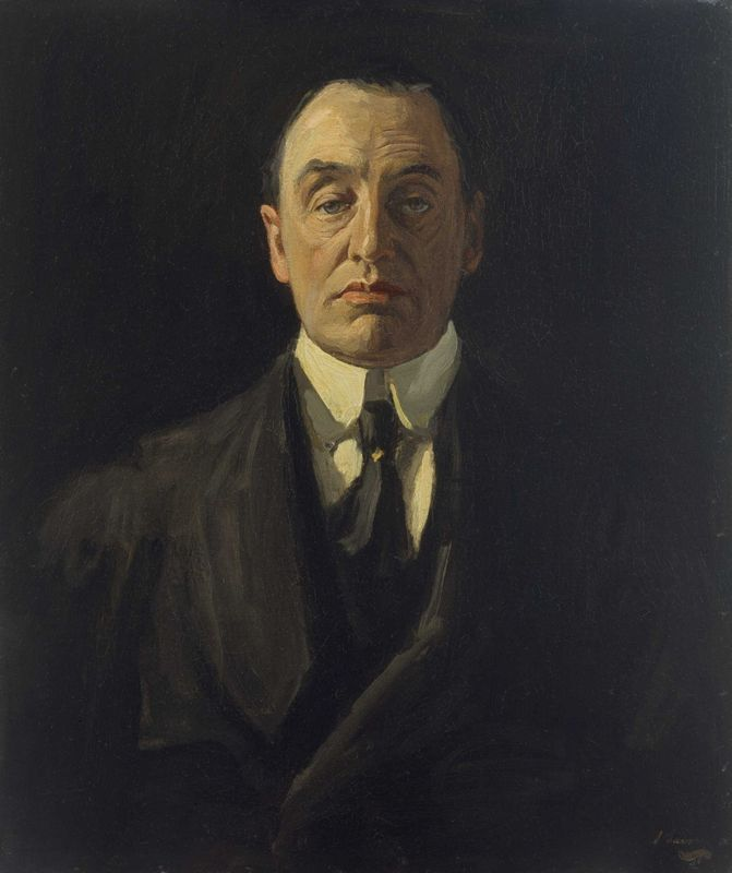 Portrait of Sir Edward Carson